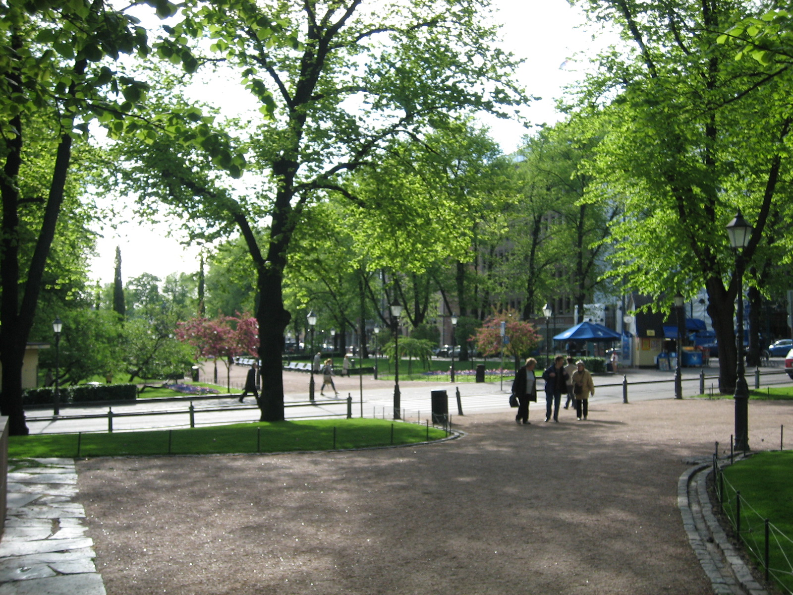 Esplanadi Park in Helsinki, Finland